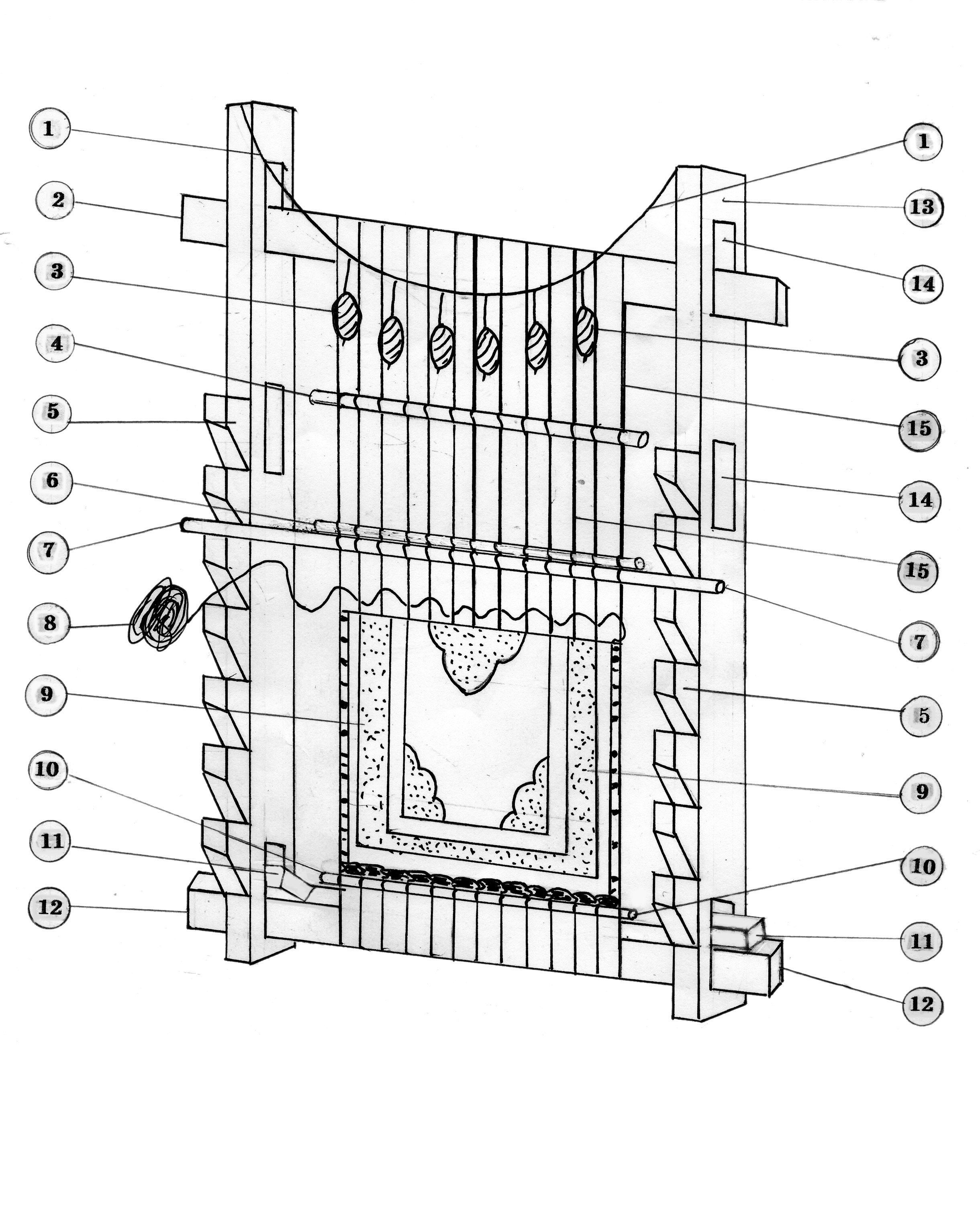 "Divar hanası" — Şaquli istiqamətdə, yuxarı hissəsi divara, aşağı hissəsi döşəməyə dayanan, xalça toxumaq üçün istifadə edilən toxucu dəzgah. Divar hanası aşağıdakı hissələrdən ibarətdir: 1. Boyanmış yumaqları asmaq üçün ip asılqan (asılqan bəzən ağac çubuq ilə də əvəz edilir). 2. Yuxarı ox. 3. Boyanmış iplik yumaqlar. 4. Vərəngəlan. 5. Yan ağacları. 6. Küjü çubuğu. 7. Küjü (kücü) ağacı. 8. Arğac ipliklər. 9. Xalçanın toxunmuş hissəsi. 10. Hana çubuğu. 11. Çiv (paz). 12. Aşağı ox. 13. Hananın qolları. 14. Oxu oturtmaq üçün yuva (dəlik). 15. Əriş ipliklər.